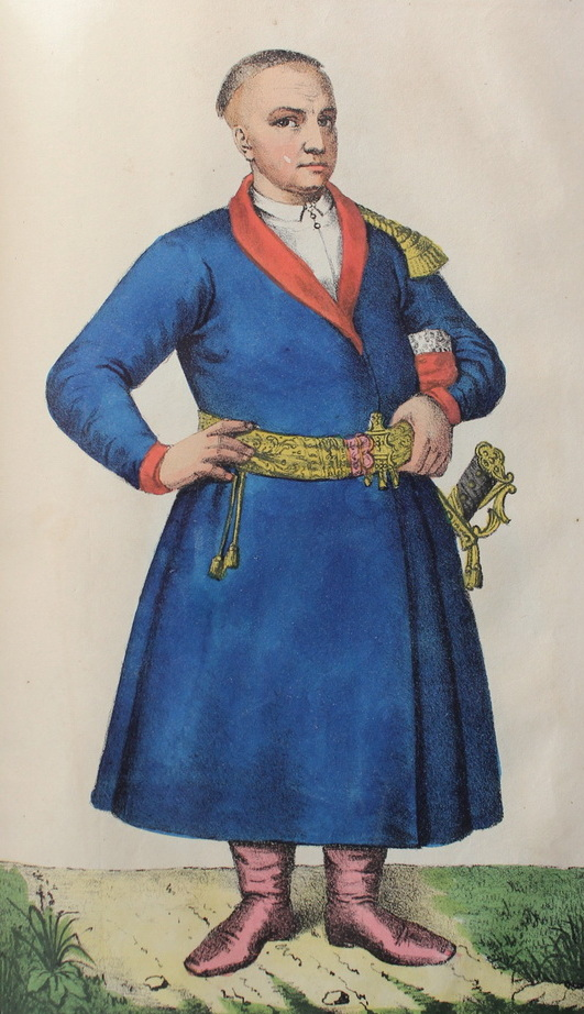 Sotnyk (Capitan) of Ukrainian Cossacks